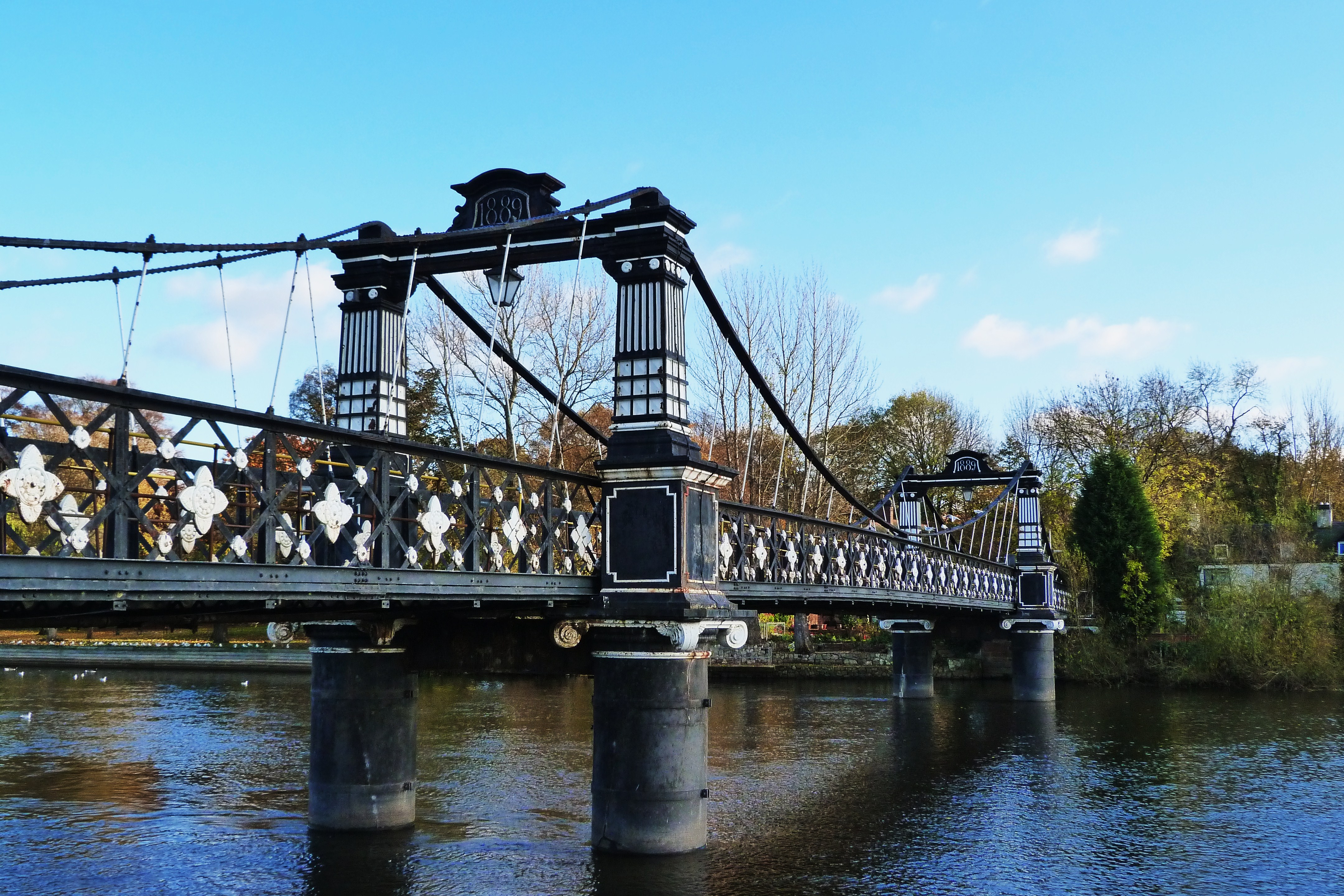 Bridge in Burton upon Trent